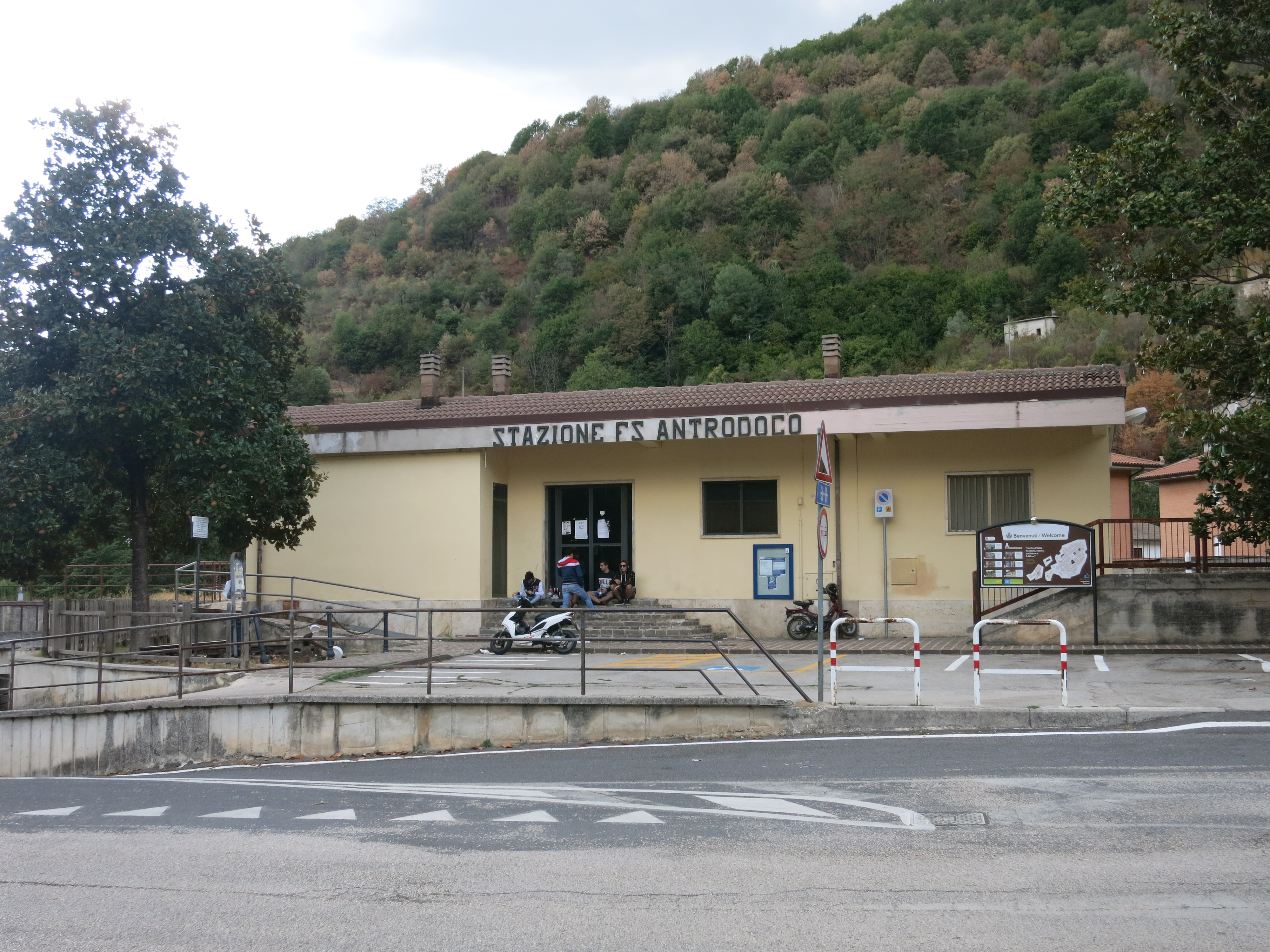 Antrodoco Centro railway stop (province of Rieti, central Italy), on the Terni-Rieti-L'Aquila-Sulmona line